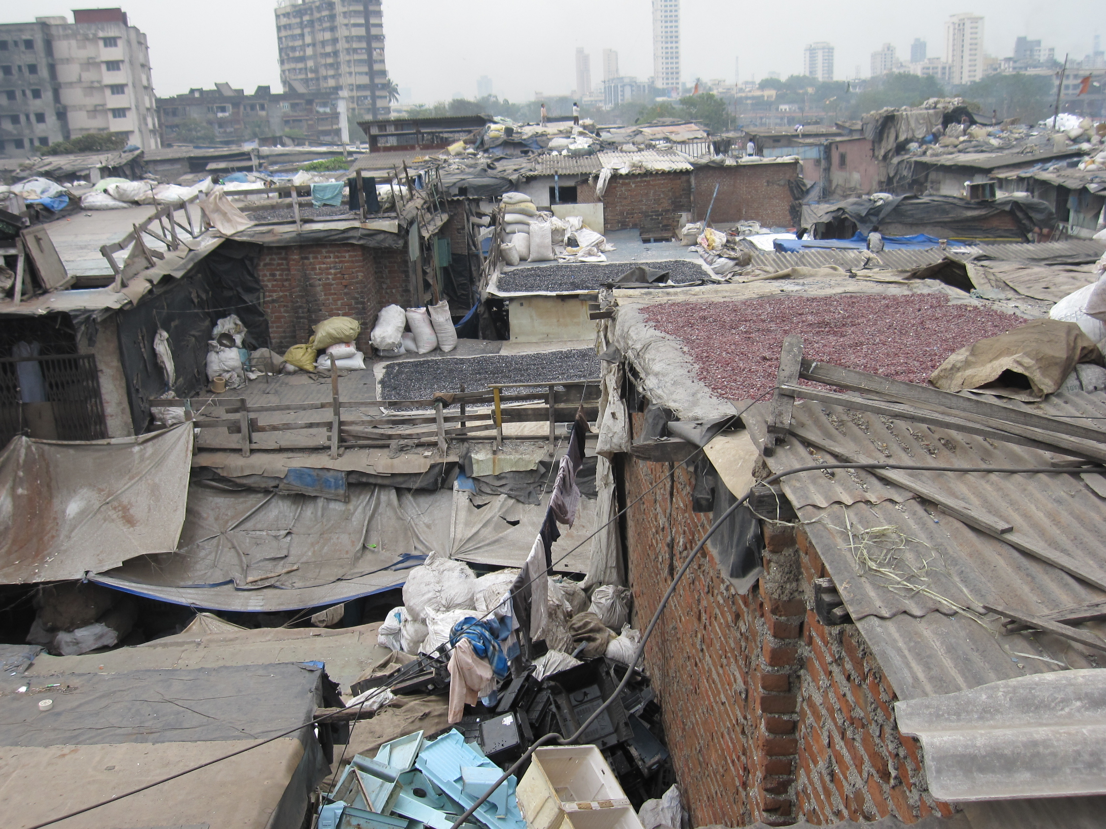 Despite Dharavi's negative light as a filthy slum with people living in poor conditions it is also industrious and enterprising. It is located in Mumbai, India.